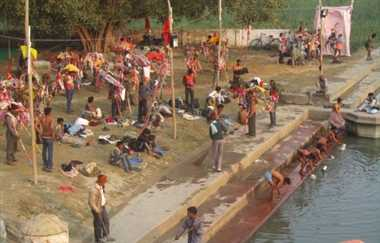 Holy Pond at Lodheshwar Mahadeva (Barabanki)